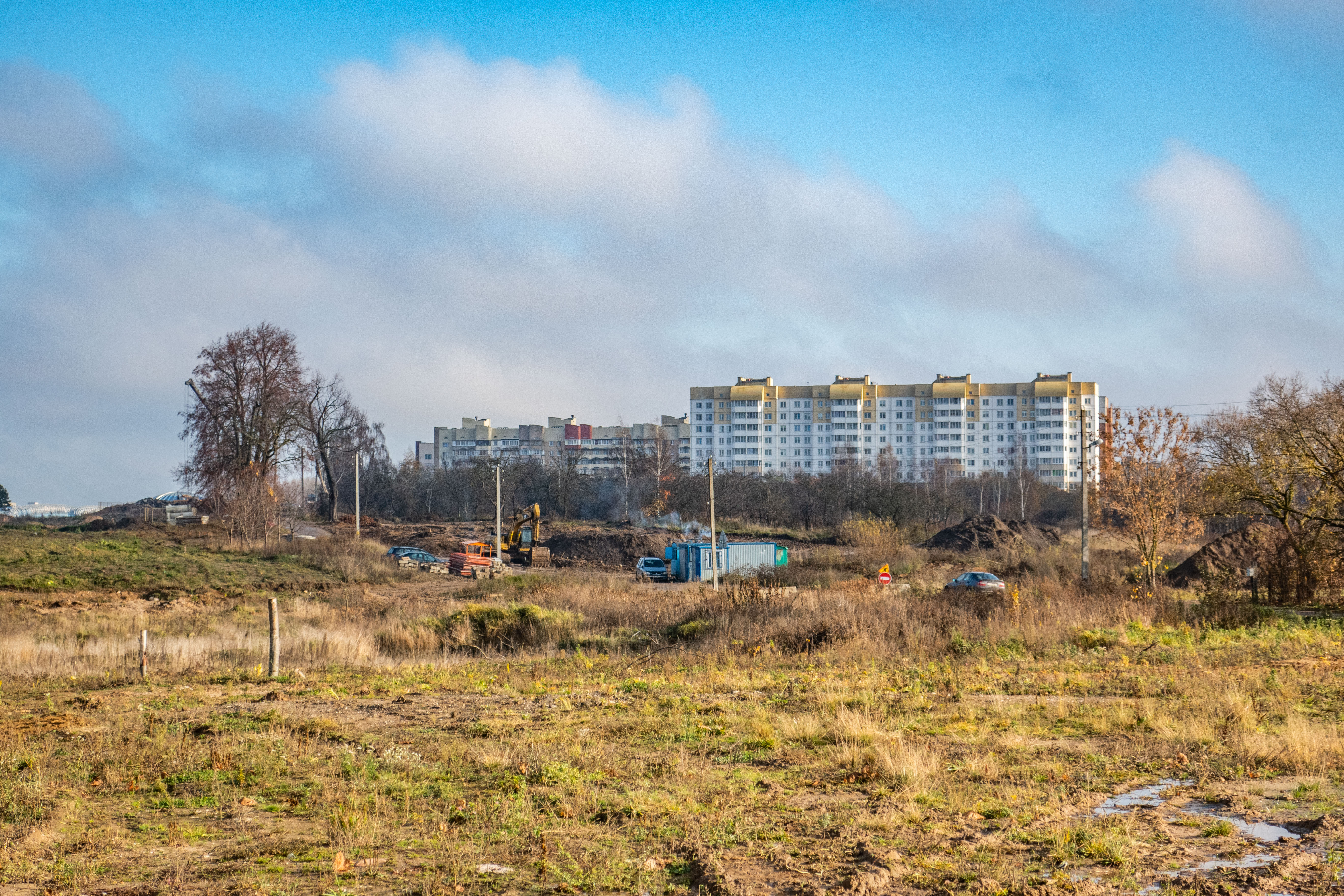 Former Karziuki village. Minsk, Belarus